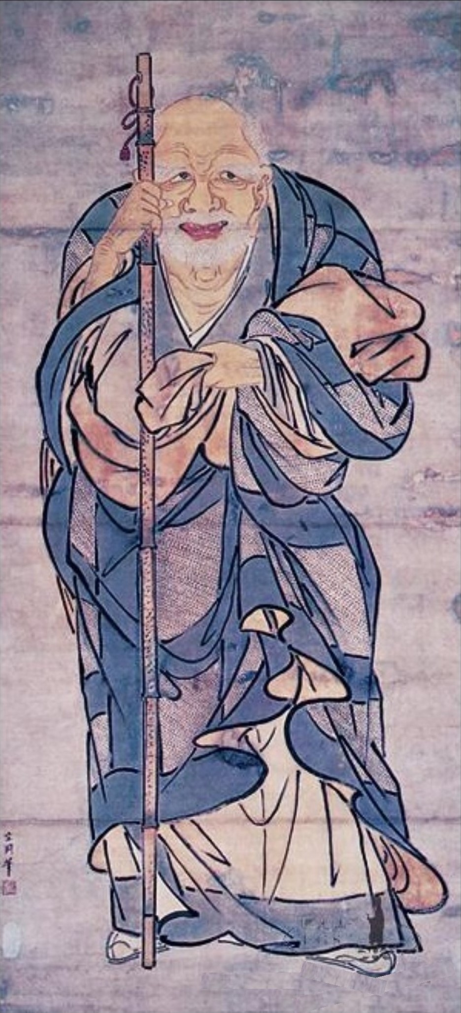 Male painted by Sōen, Monkpainter